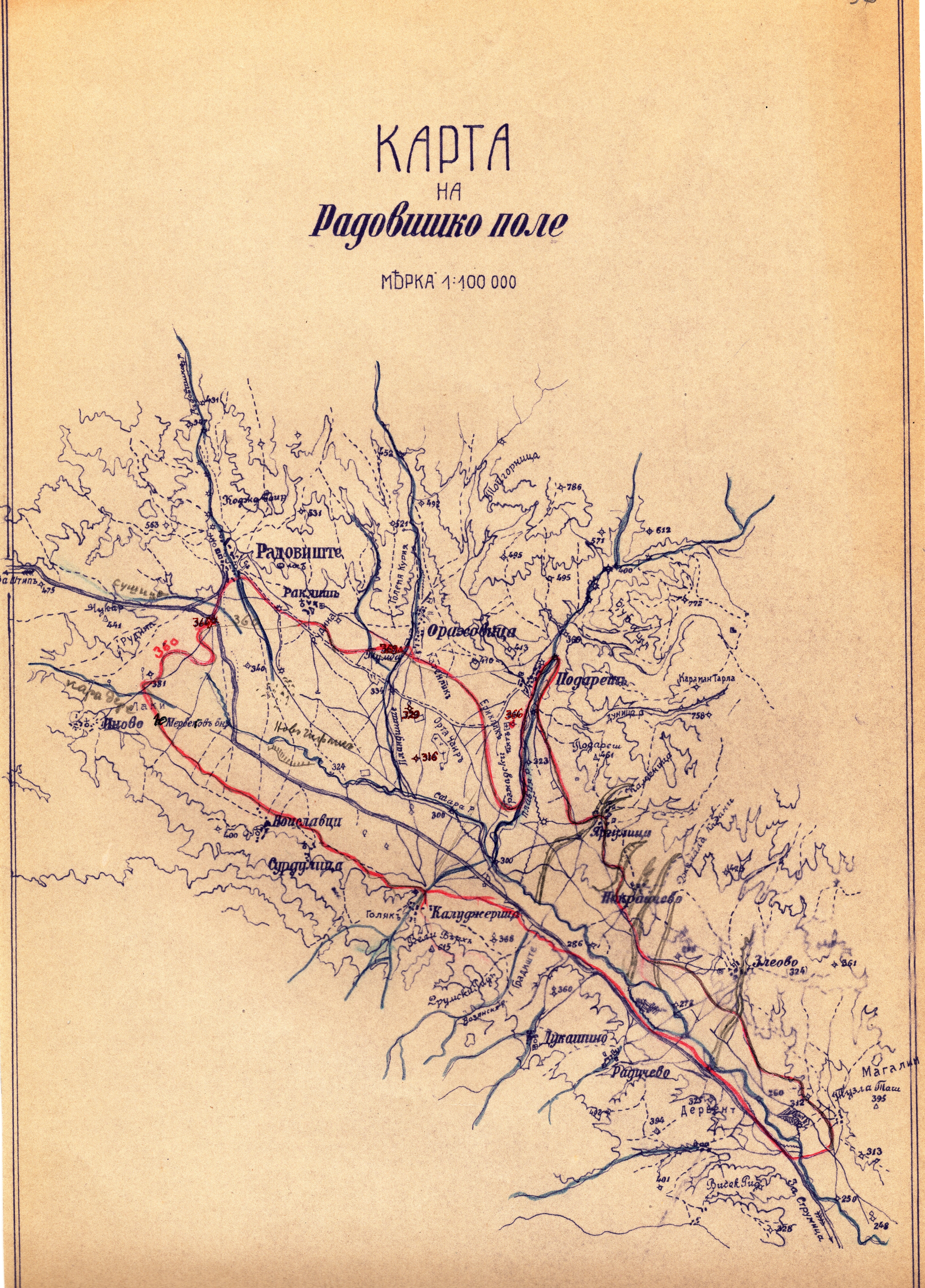 Map of Radovis Valley, Macedonia, before 1930s. This media file is produced by Wikipedian in Residence in Category:Wikipedian in Residence at DARM in 2017.